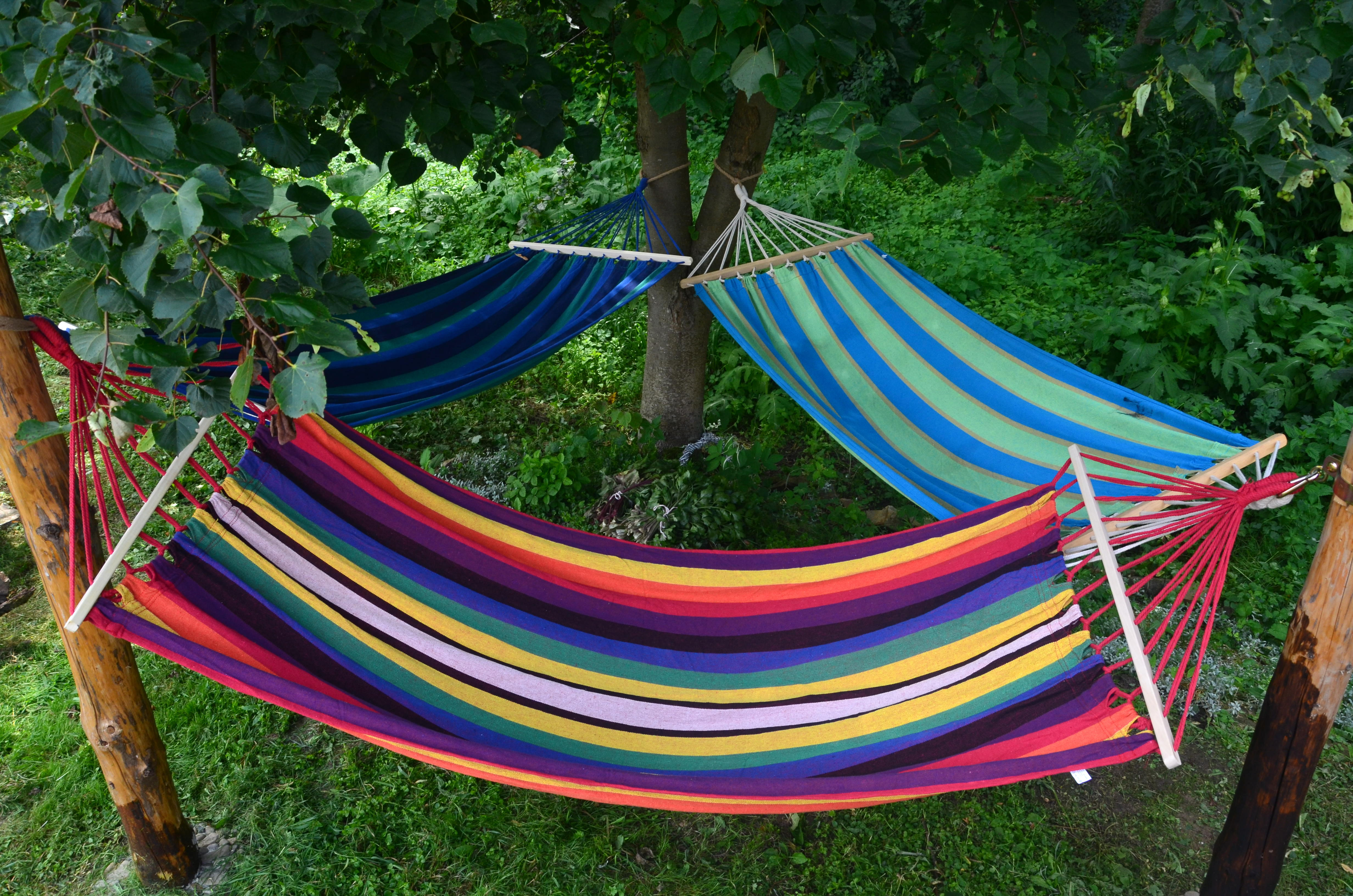 Hammocks